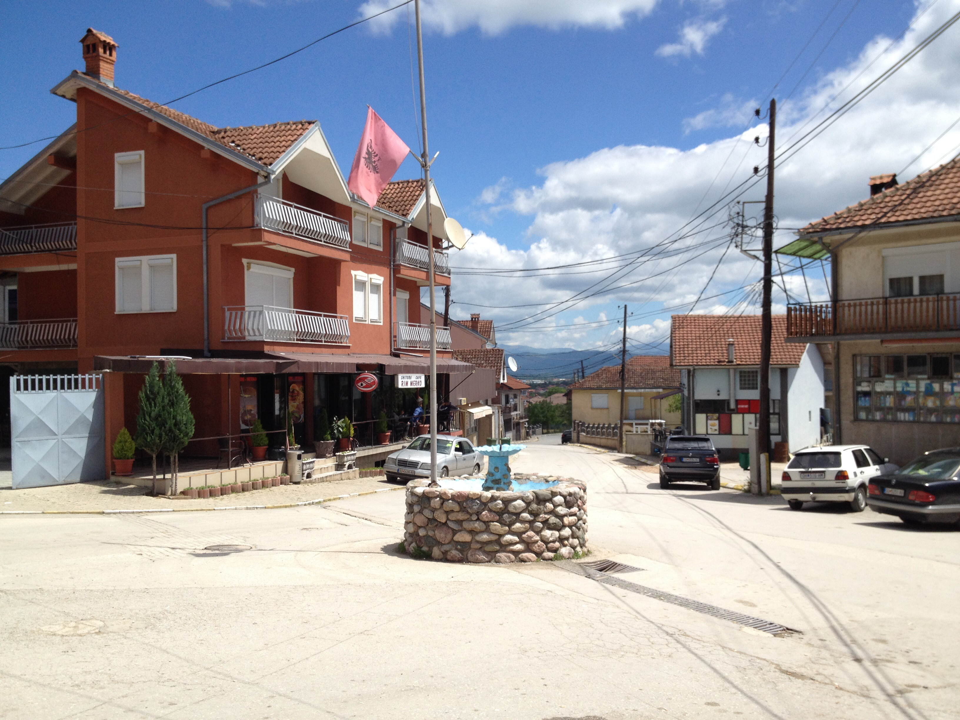 Center of village Radolista, in Struga Municipality.